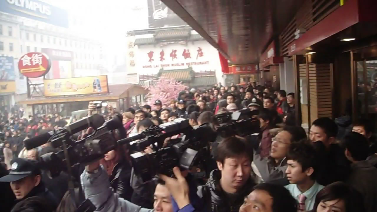 2011 Chinese protests